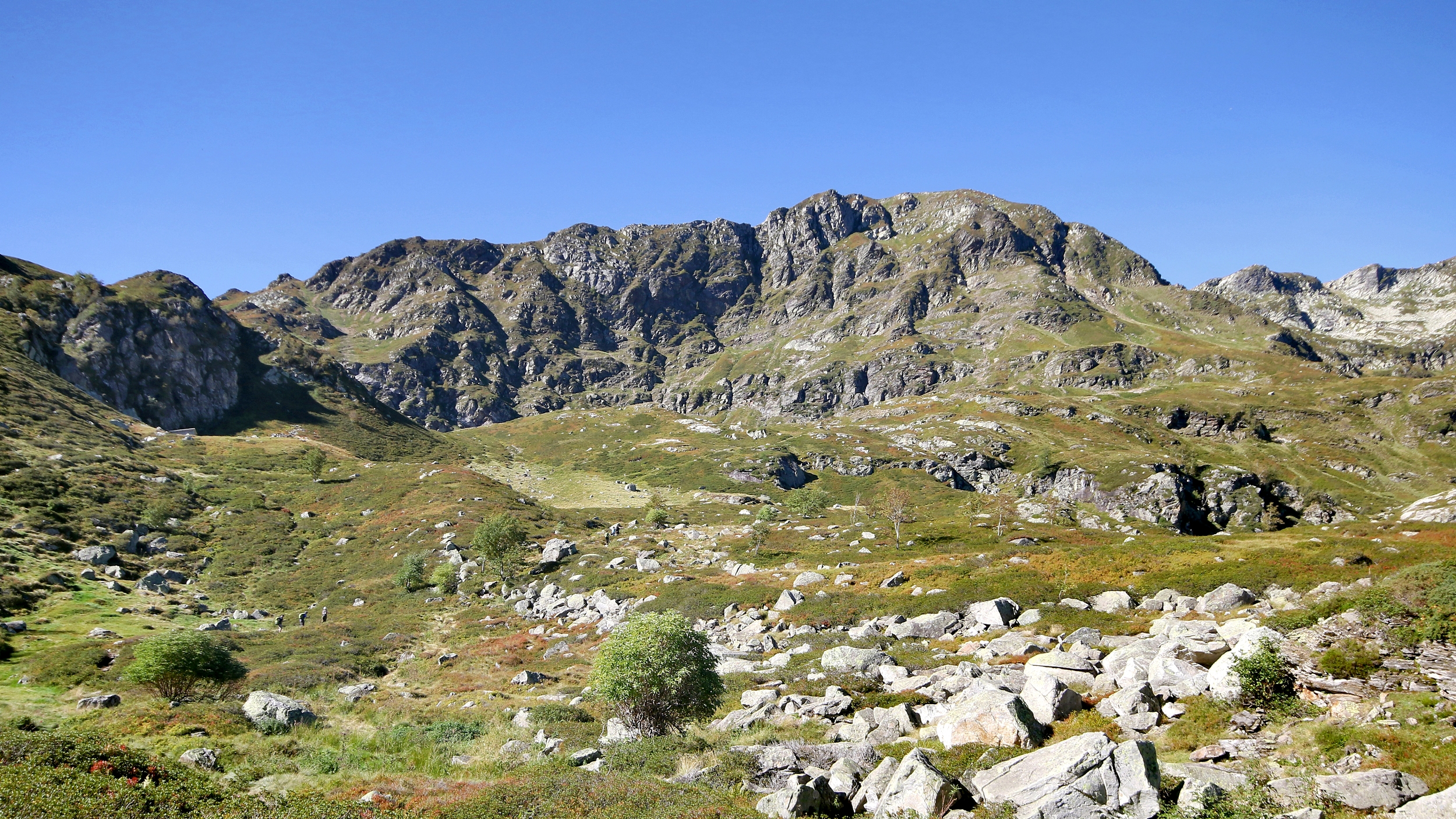 Pic de Peyroutet dans le massif du Pic des Trois Seigneurs